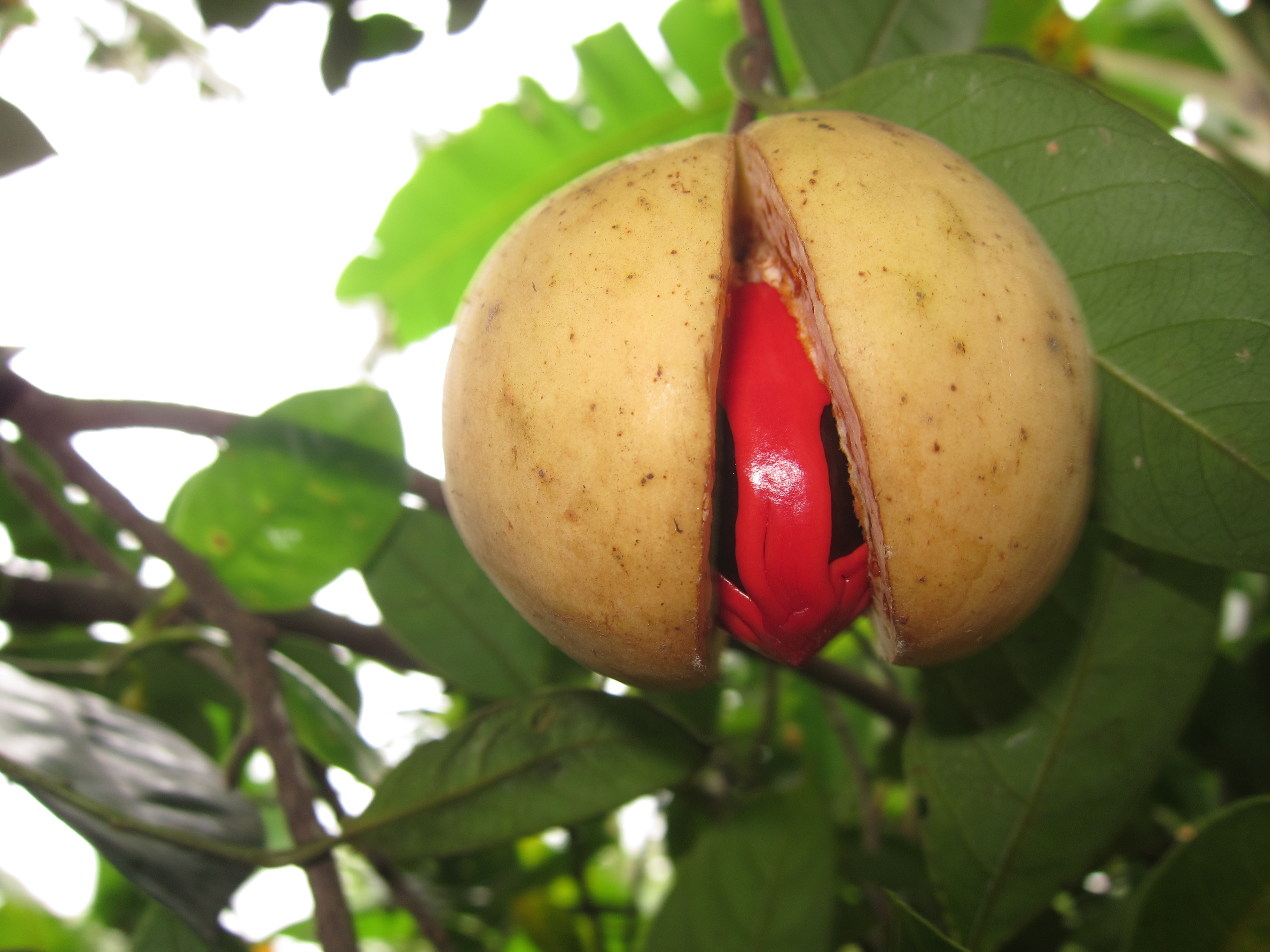 Myristica Fragrans